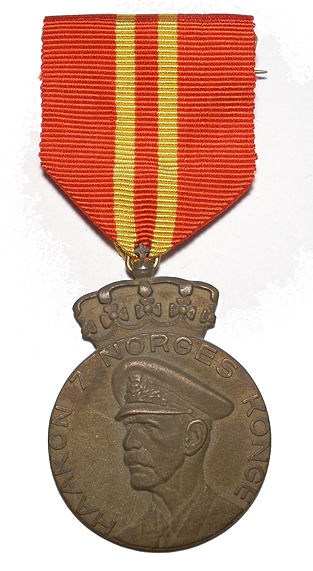 Norwegian King VII 70 year anniversary medal